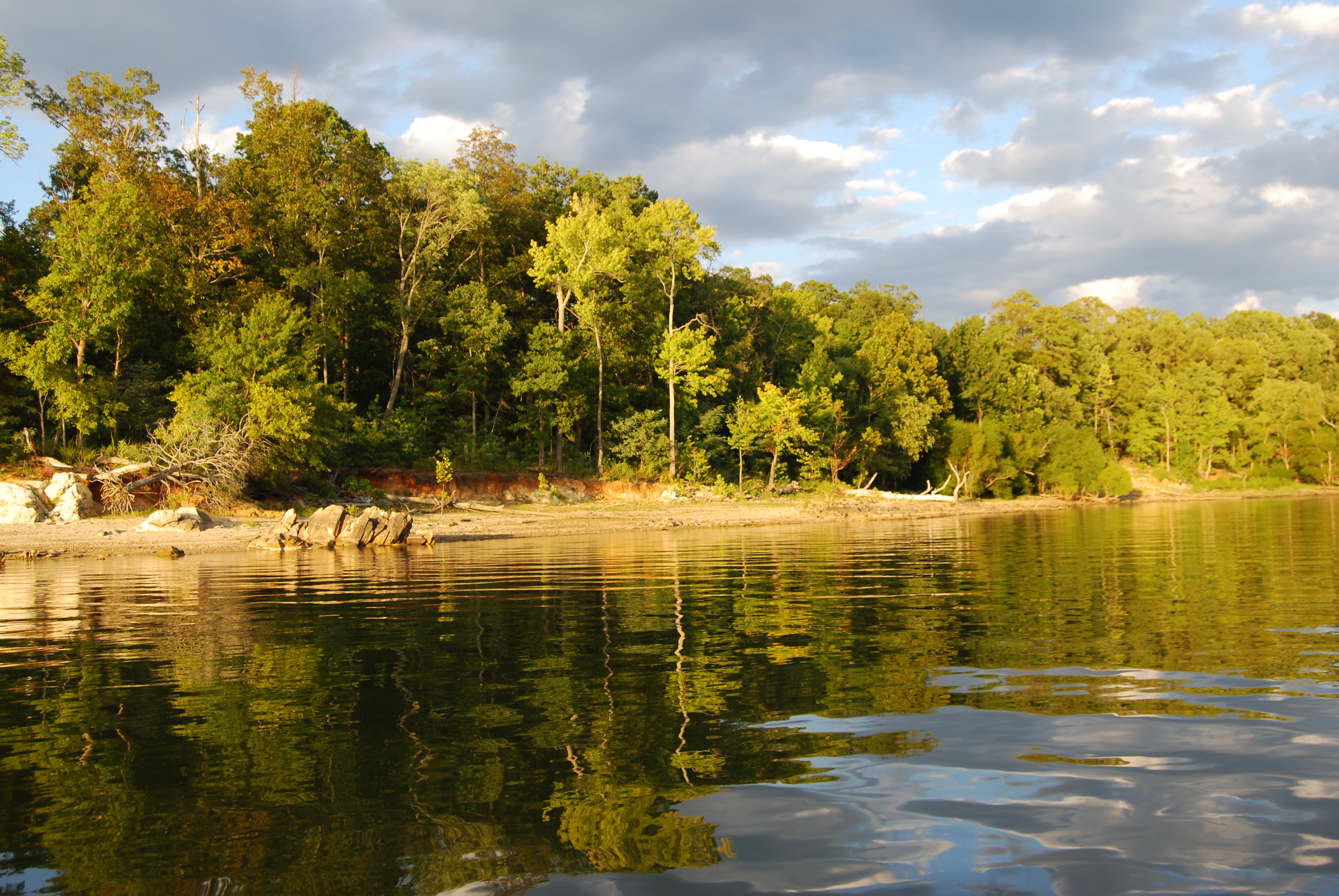 Took this image from the boat along the shores of the John H Kerr Reservoir at Occoneechee State Park on August 22, 2011. At sunset, so approx 745PM.